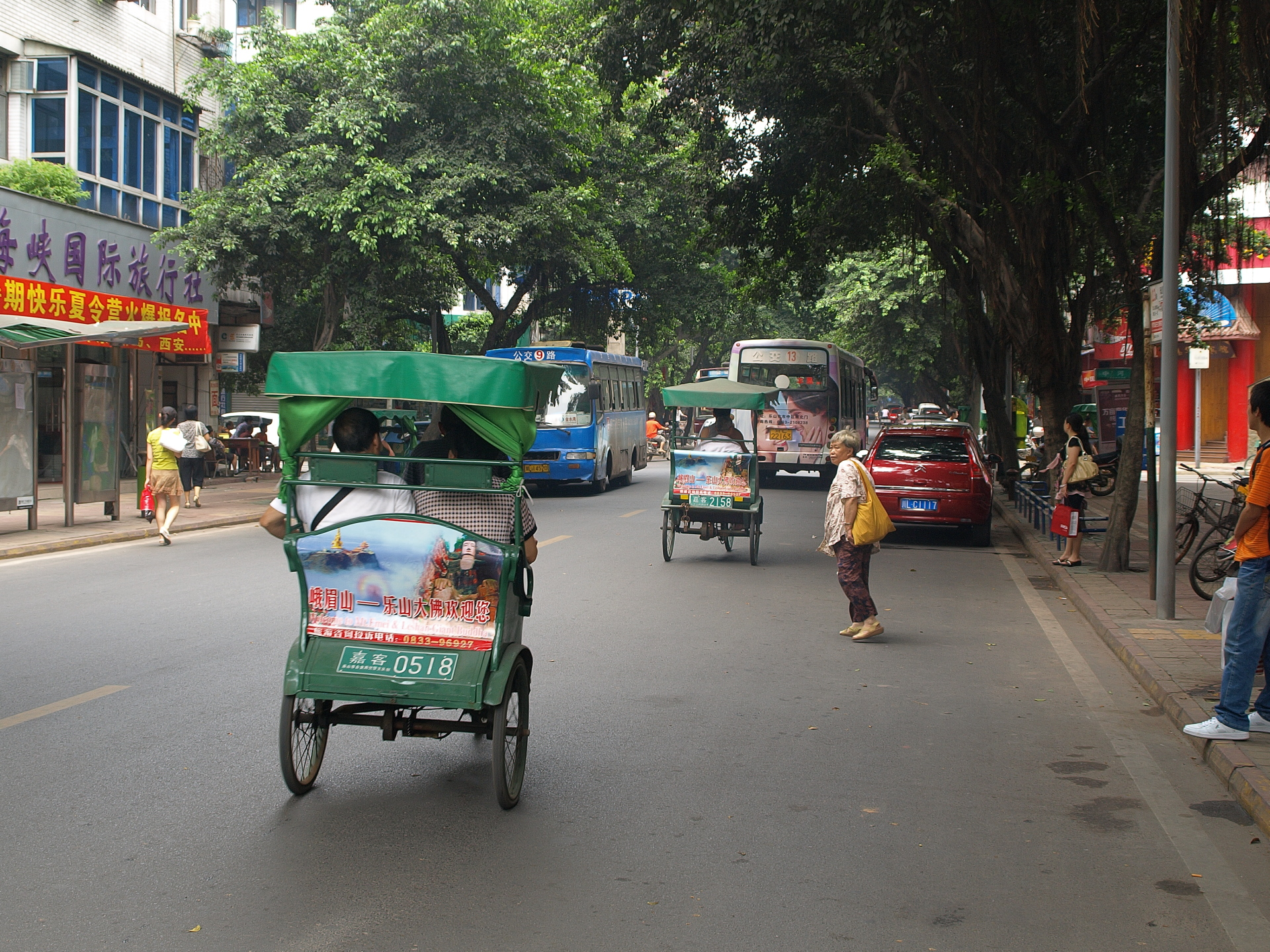 Downtown Leshan city, Sichuan, China